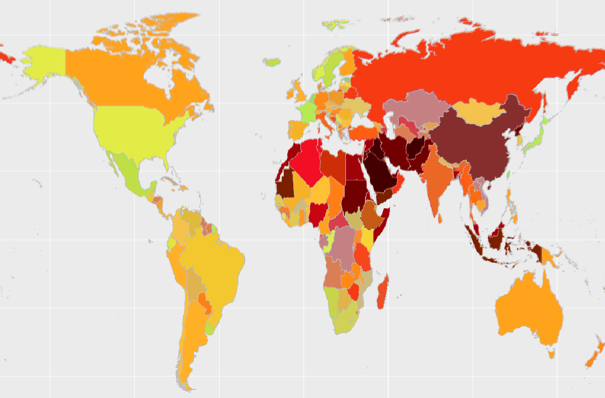 This composite map overlays the results from four separate categories of assessment, as to how countries discriminate against non-religious people. Countries block-filled in darker, redder colors are rated more severely in the report, while lighter, greener shades are more "free and equal".